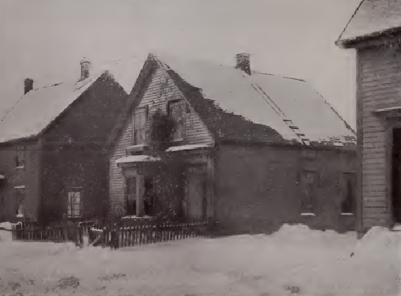 Alleged haunted house. The Great Amherst Mystery.